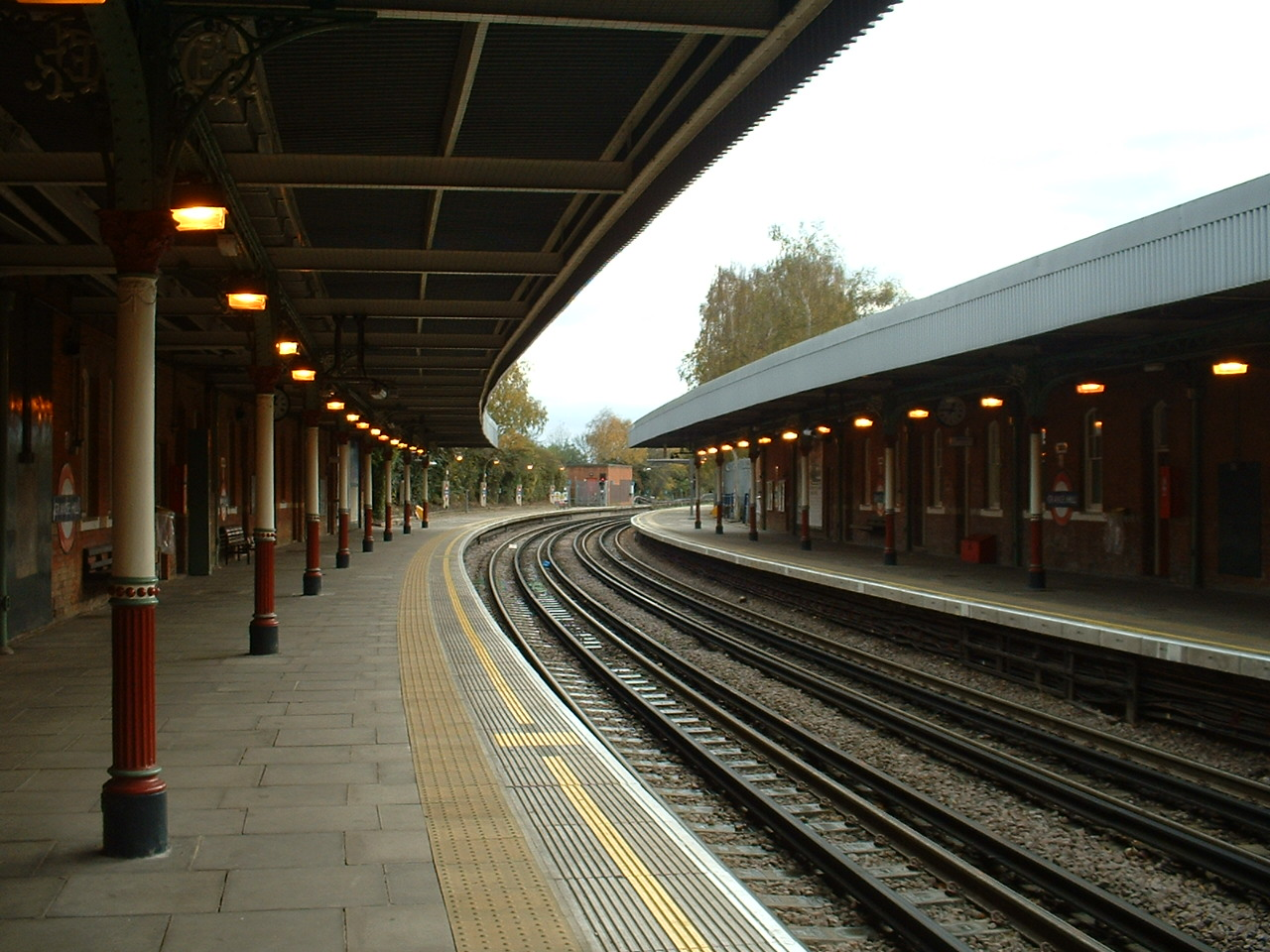 Grange Hill tube station looking south (operationalluy 'westbound' due to the loop line from Woodford).